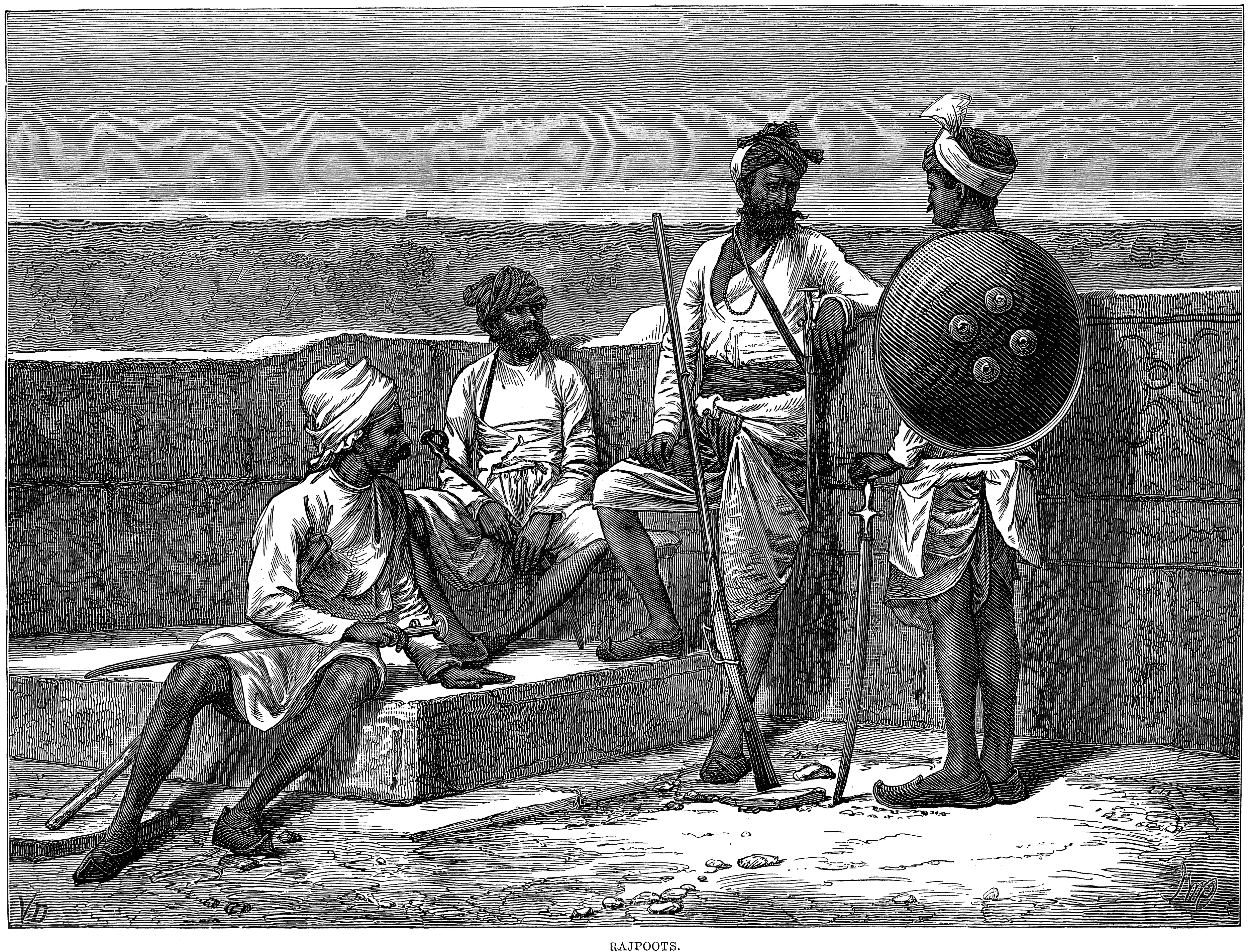 This is the unrestored version of File:Rajpoots 2.png. Rajpoots (modern spelling: Rajputs), from a series in the Illustrated London News celebrating the Royal Visit to India in early 1876.